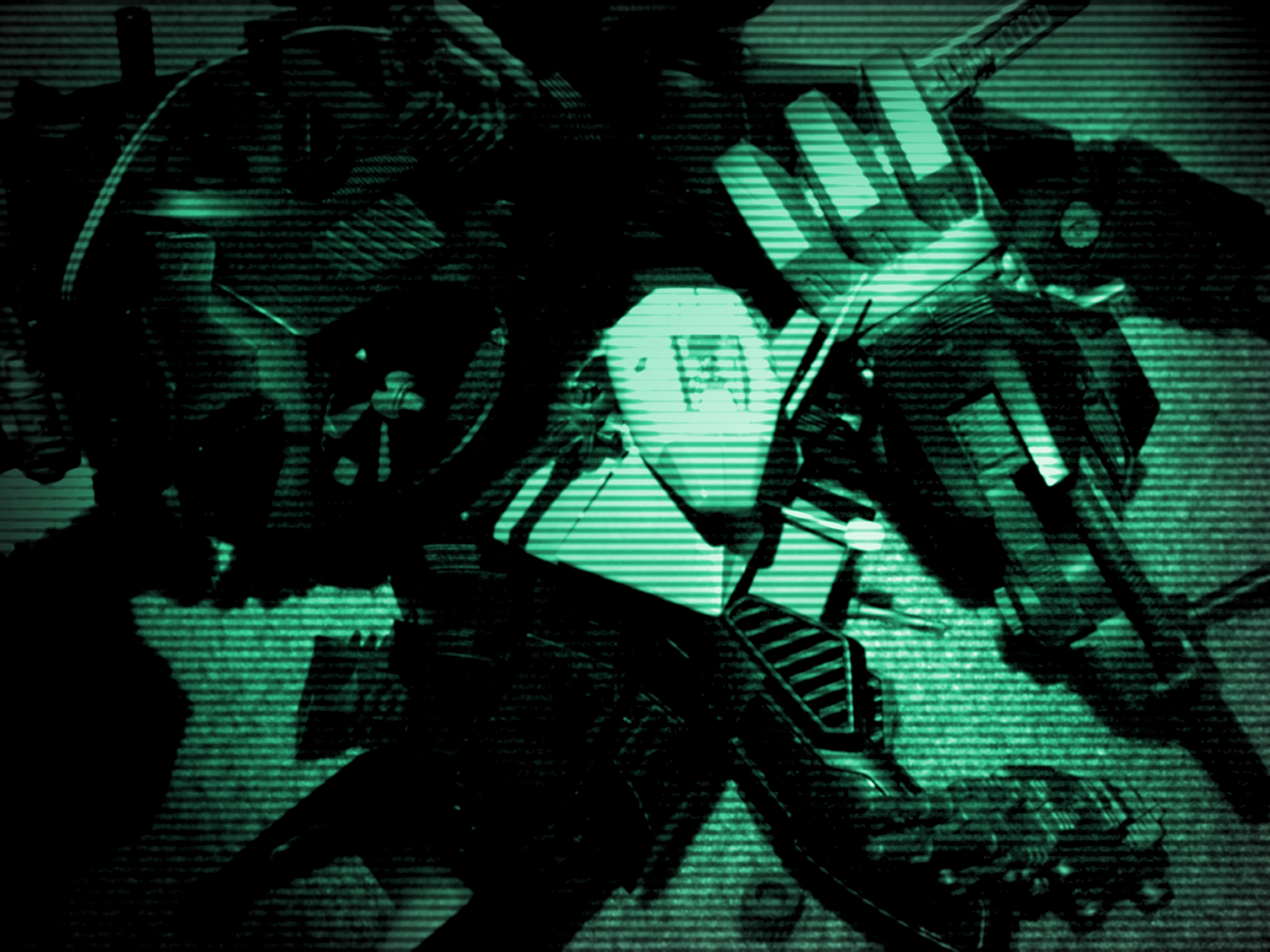 Example of the scan line effect in computer graphics.